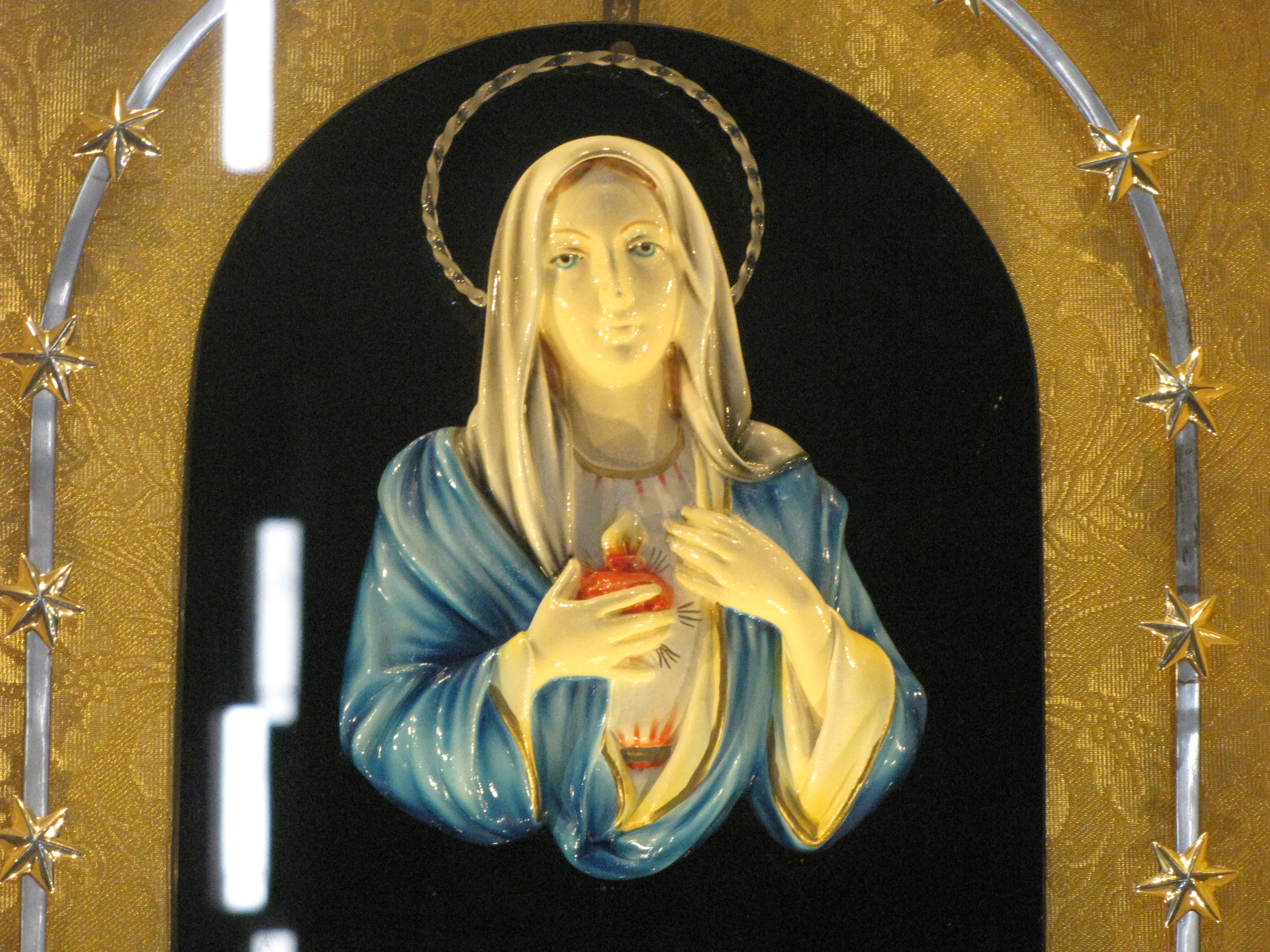 the crying virgin Maria- Santuario Madonna delle Lacrime,Syracuse